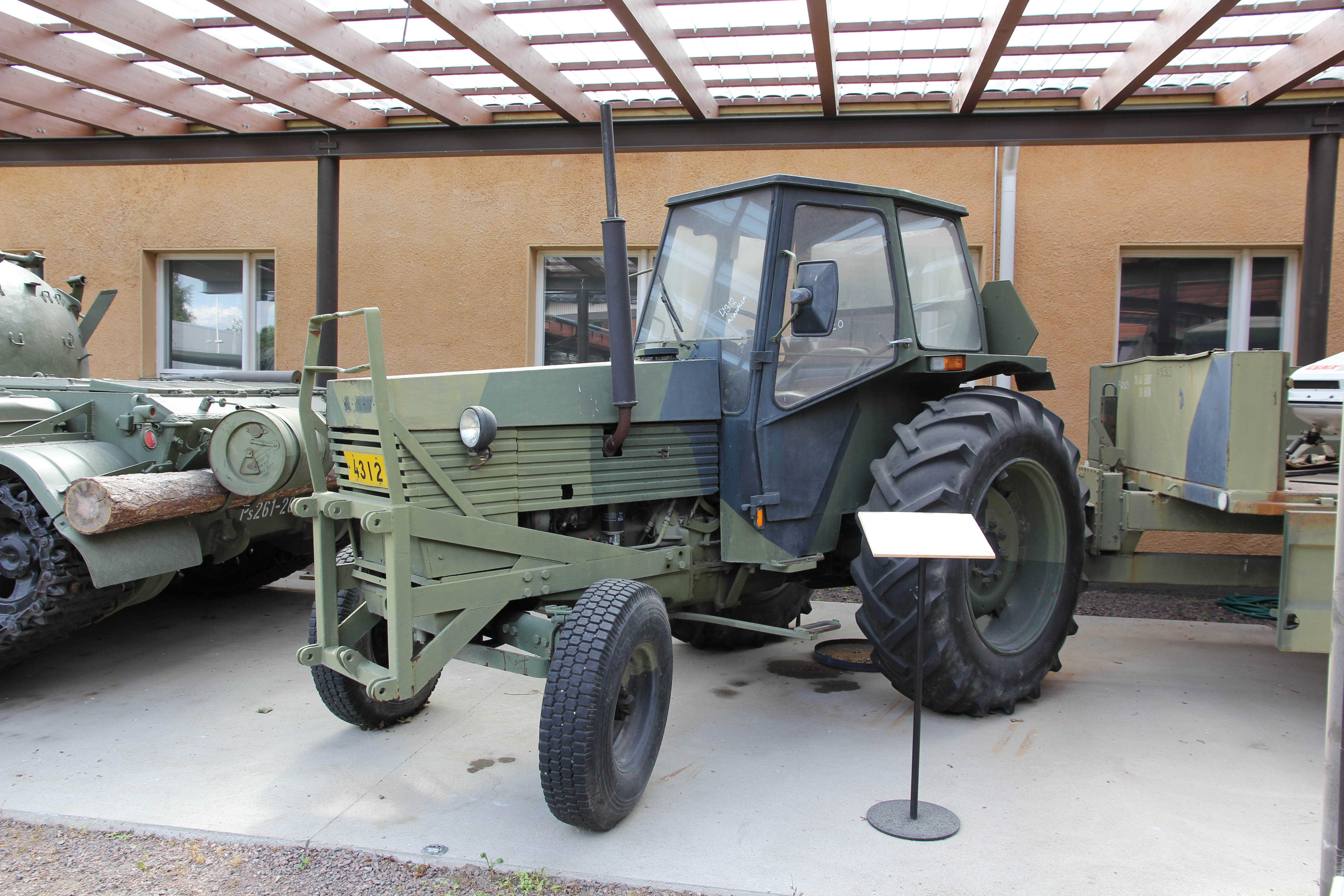 Finnish military Valmet 702 tractor. Photographed in RUK-museum in Hamina.